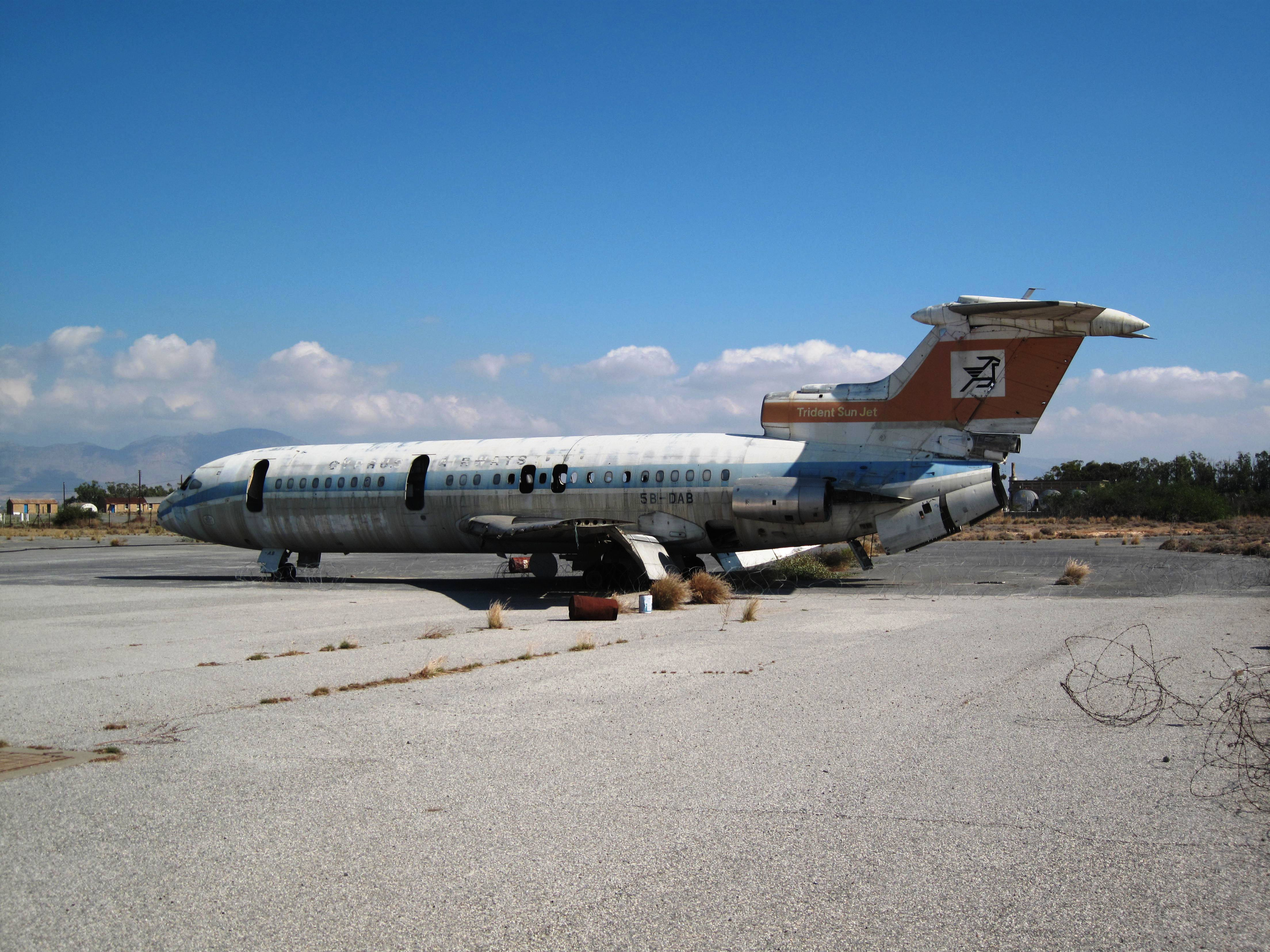 The abandoned Hawker Siddeley Trident 2E 5B-DAB at the closed Nicosia International Airport in the United Nations Buffer Zone in Cyprus.